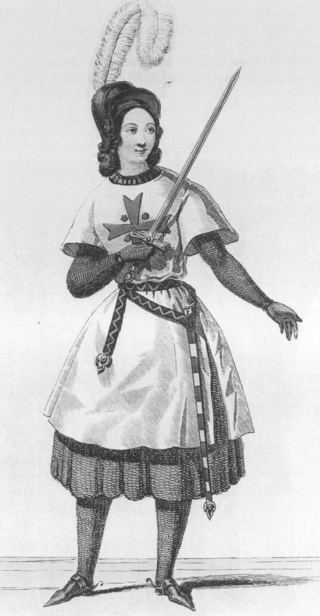 Rossini - Tancredi - Pauline Viardot-Garcia as Tancredi - Théâtre-Italien - Paris 1840